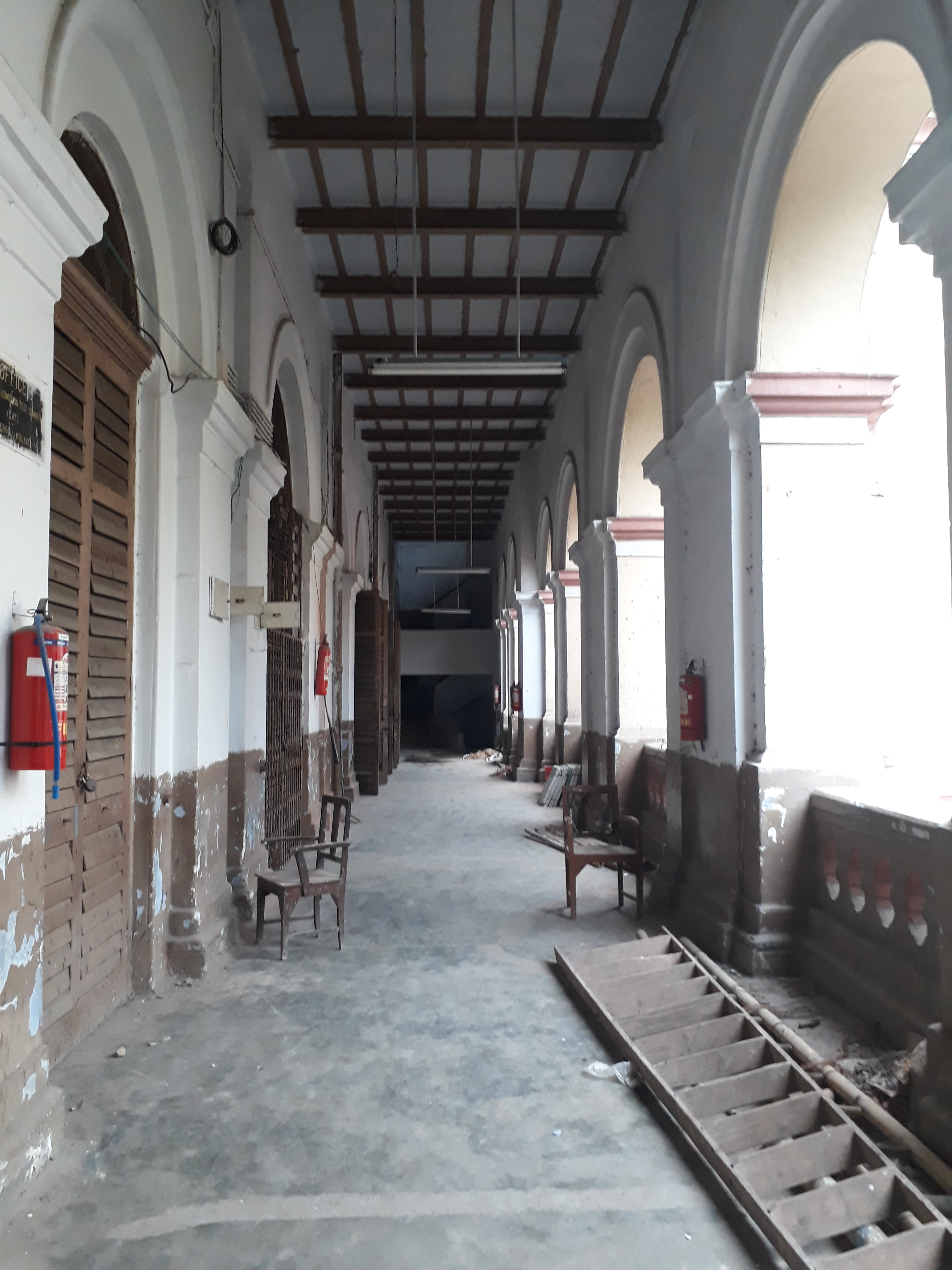 Hair School , Kolkata